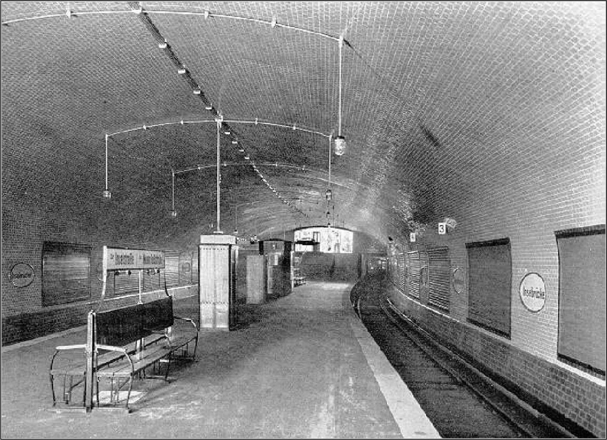 The Berlin U-Bahn station Inselbrücke (today Märkisches Museum)